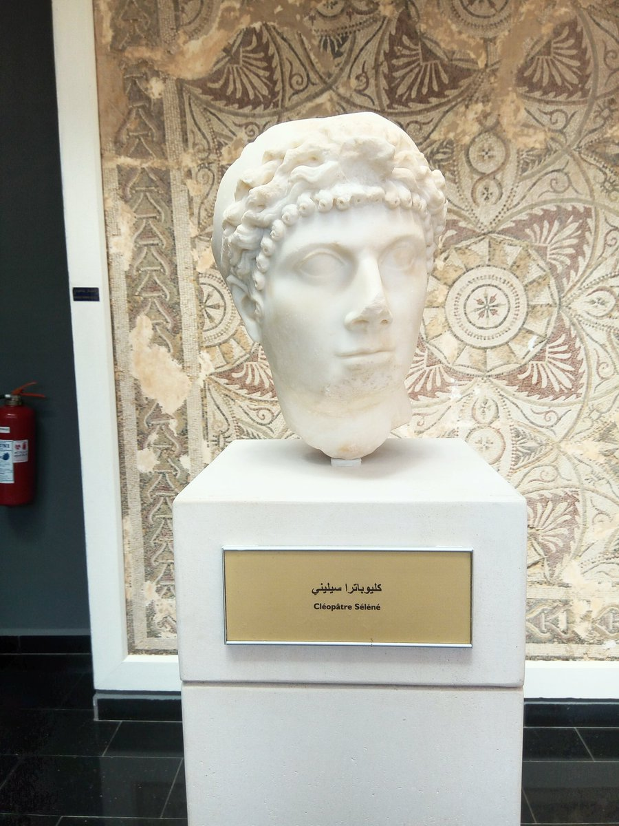 Cleopatra Selene II, wife of Juba II of Mauretania, from Archeological Museum of Cherchell, Algeria.